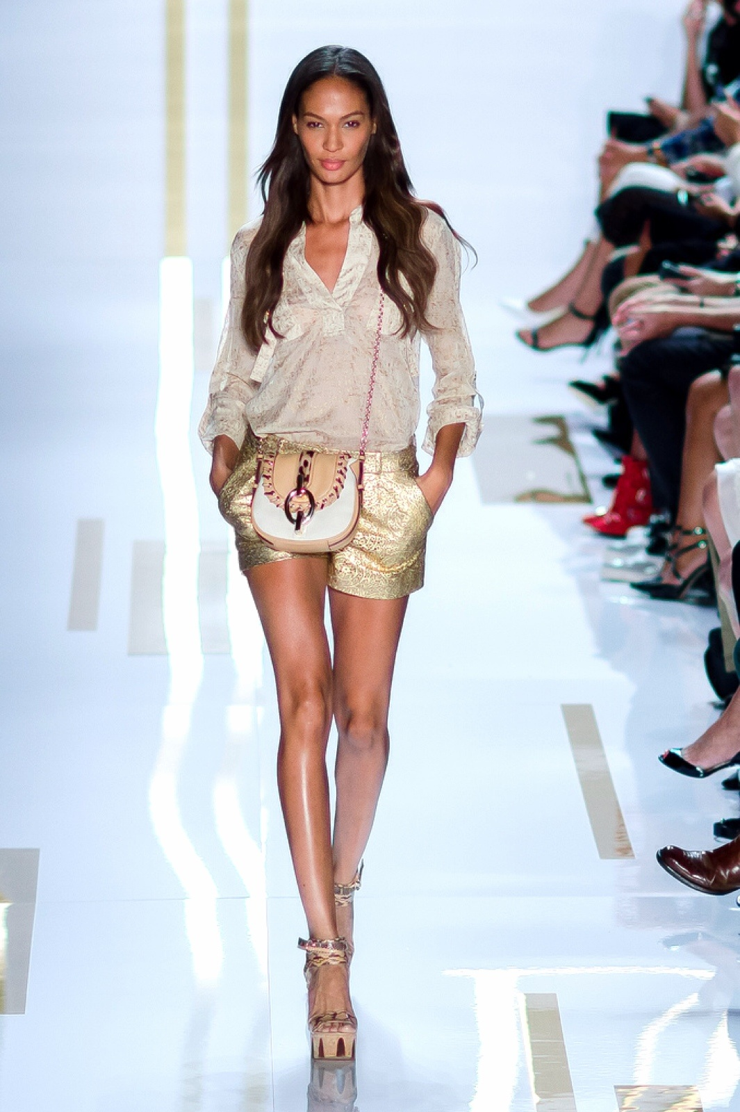 Joan Smalls Rodriguez(born July 11, 1988), is a Puerto Rican fashion model.